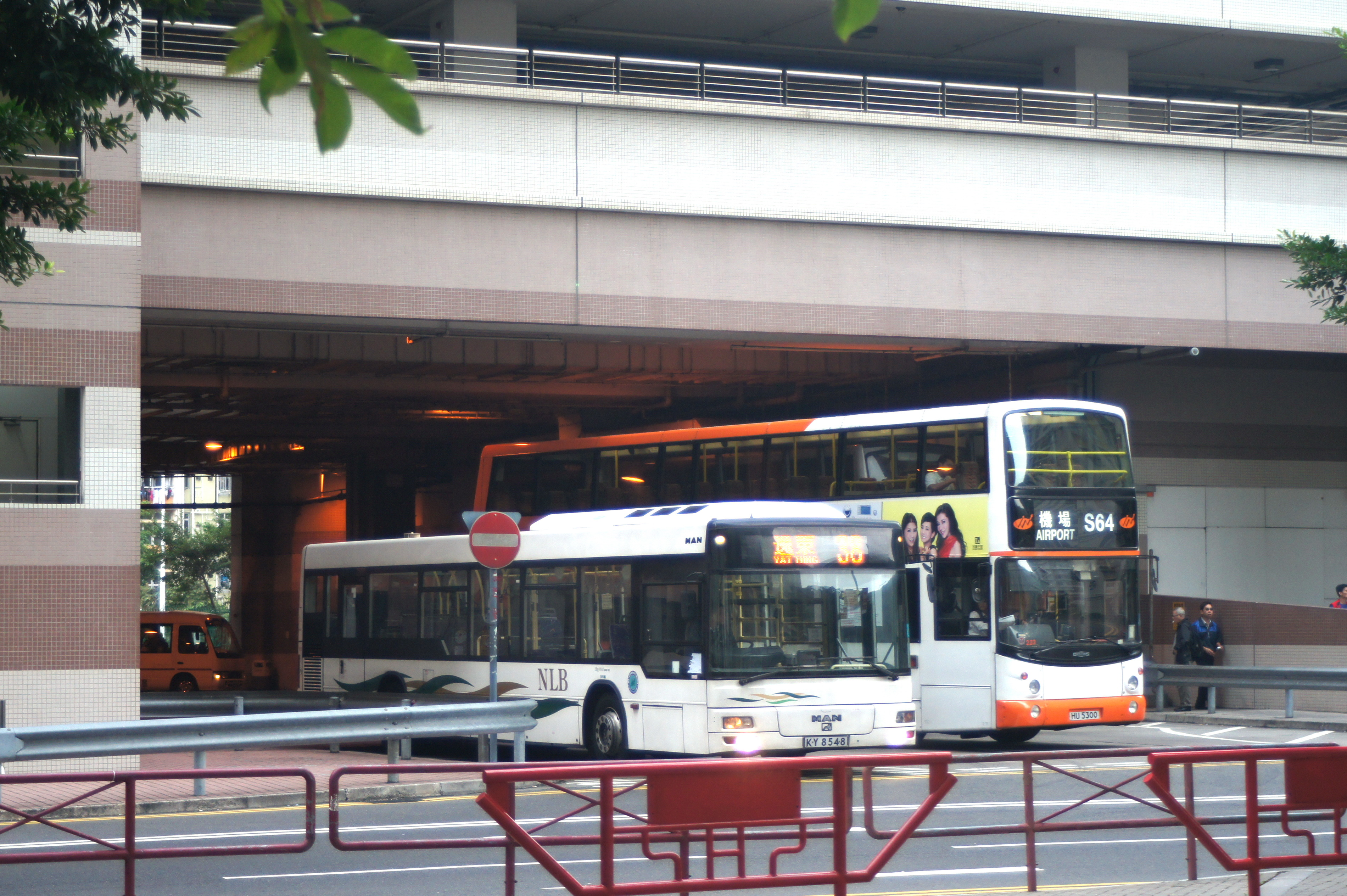 Yat Tung Estate Public Transport Terminus, East exit on Yat Tung Street, Tung Chung, Lantau Island, Hong Kong.